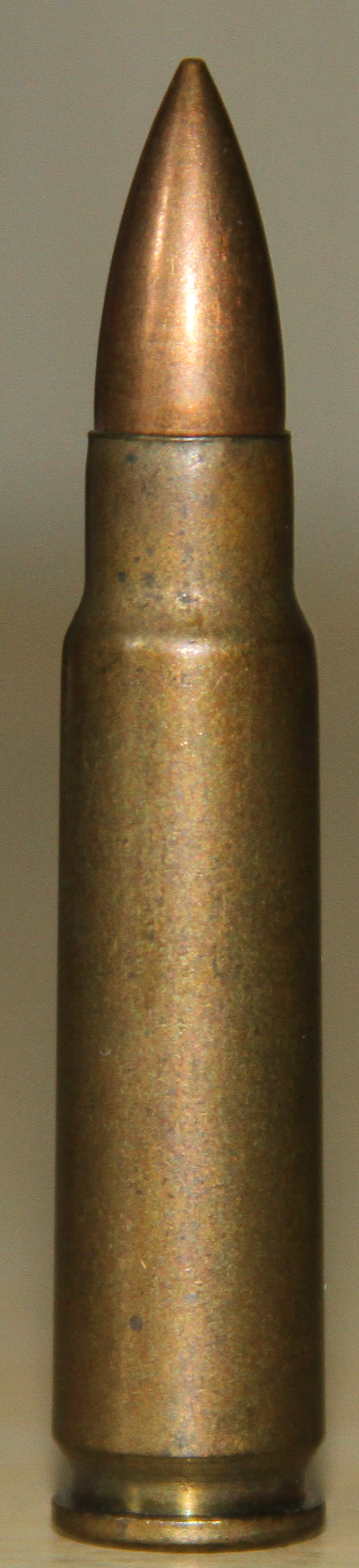 7.62x45mm cartridge